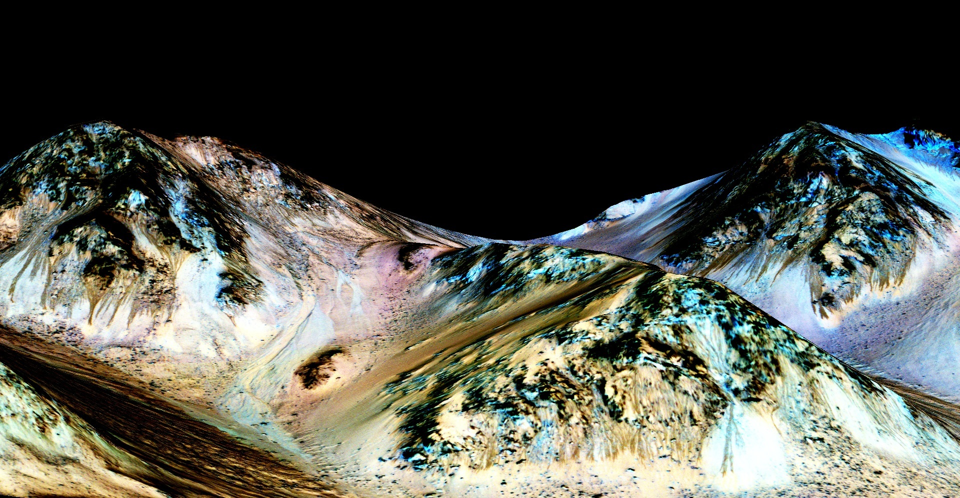 Mineral salts that attract water on these slopes at Hale crater. The streaks are formed by liquid water. The blue color seen upslope of the dark streaks is thought not to be related to their formation, but instead is from the presence of the mineral pyroxene.